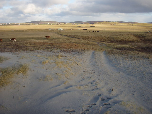 Dunes to farmland The land south of Baile Mor is the home of a fair few cattle, and fenced off by a series sand dunes.